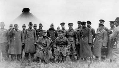 Battle of Khalkhin Gol-command representatives during armistice on October 1, 1939 (after the armistice at Moscow on September 16, 1939). The head of representatives: Commander of the Soviet Southern Group Kombrig Mikhail Ivanovich Potapov (Михаил Иванович Потапов) and Chief of Staff of the Japanese Sixth Army Major General Tetsukuma Fujimoto (藤本 鉄熊).